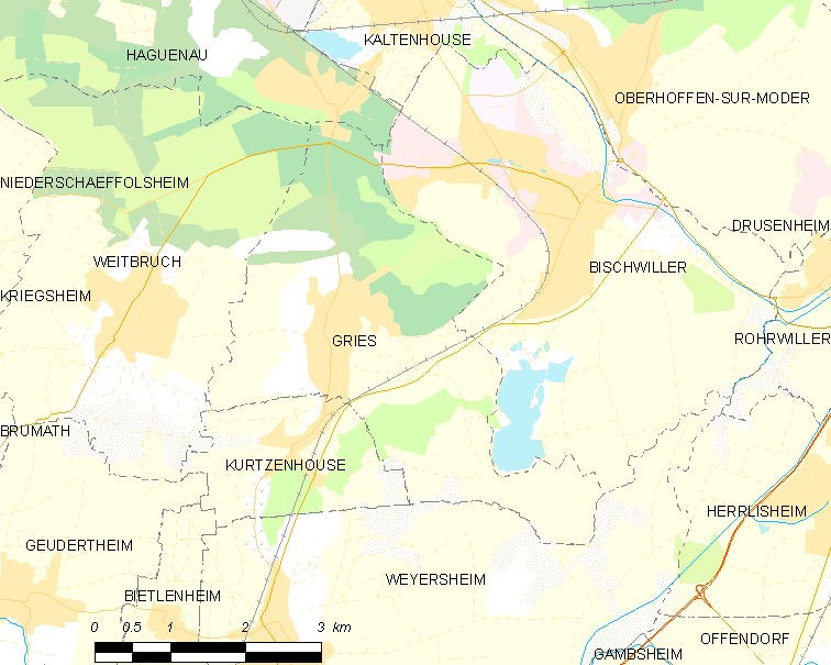 Map of French municipality